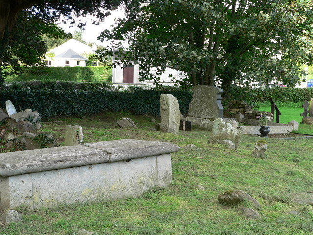 Killadeas Churchyard Early Christian carved stones.